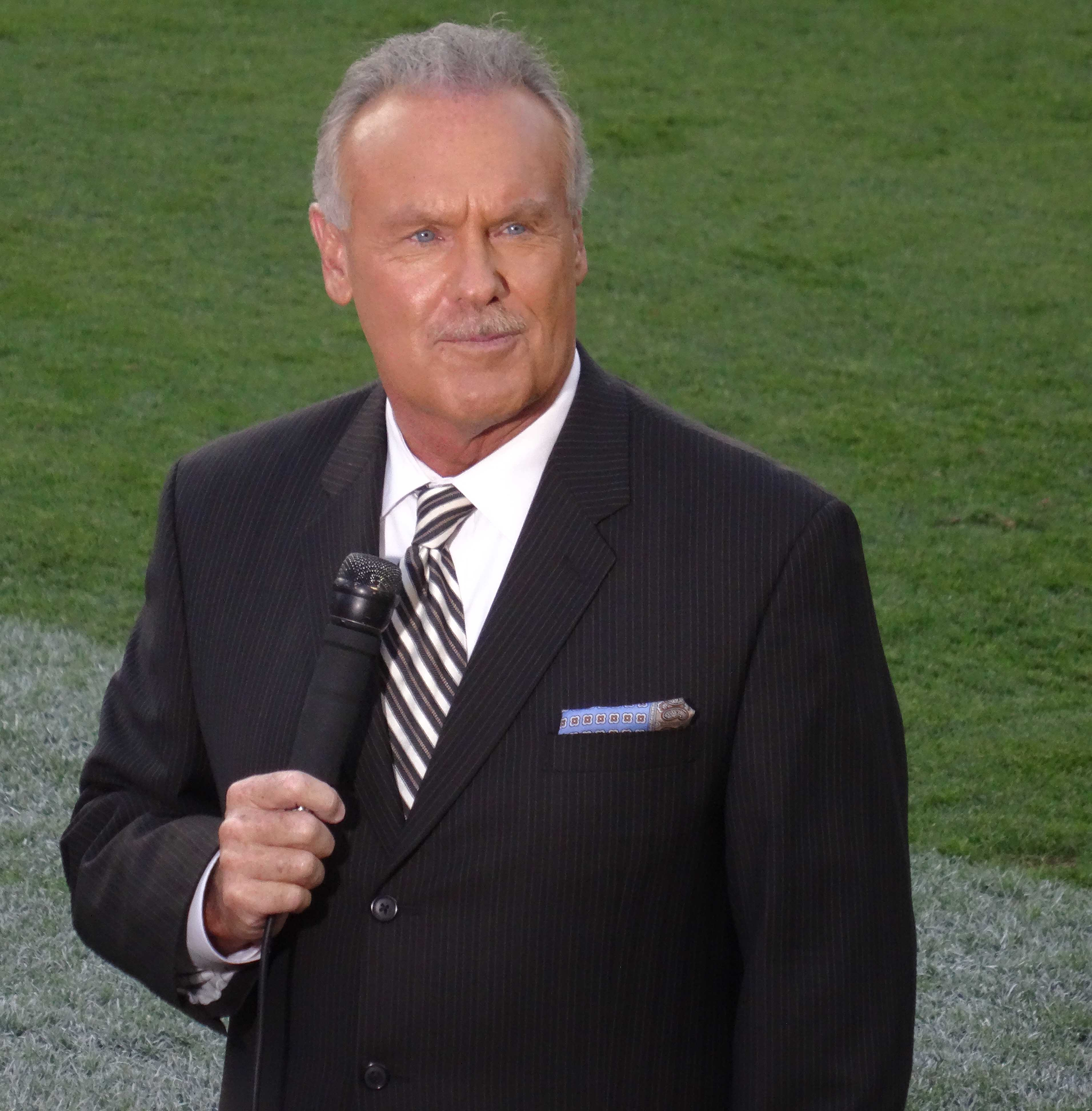 A sports reporter in Phoenix, Arizona.